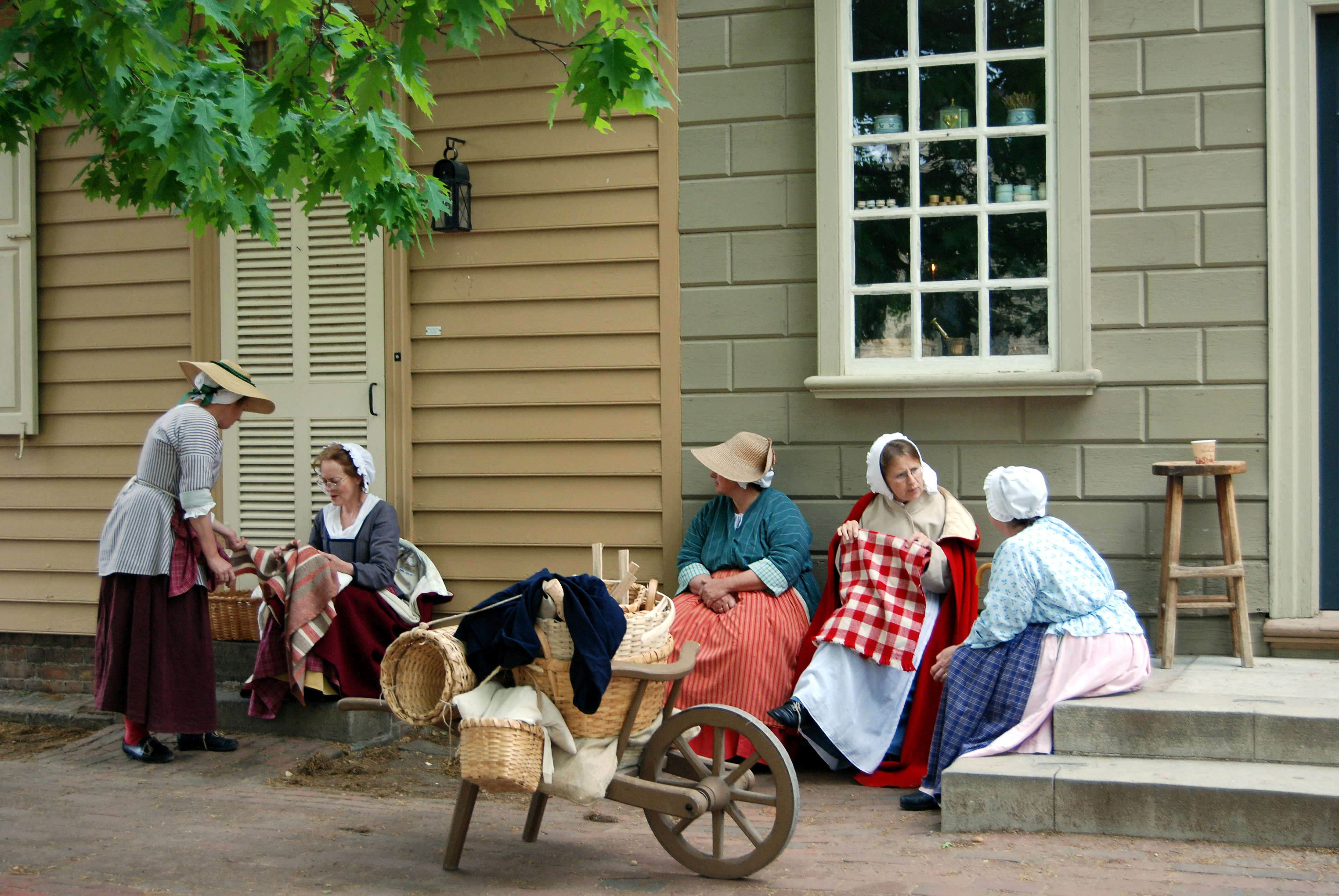 Women reenacting in Colonial Williamsburg